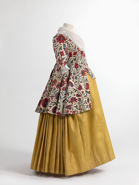 Anonymous, Jacket in chintz, skirt in wool damask, 1750-1800. MoMu Collection T12/14/B4, T12/26/B62. Jacoba de Jonge Collection in MoMu - Fashion Museum Province of Antwerp, / Photo by Hugo Maertens, Bruges.